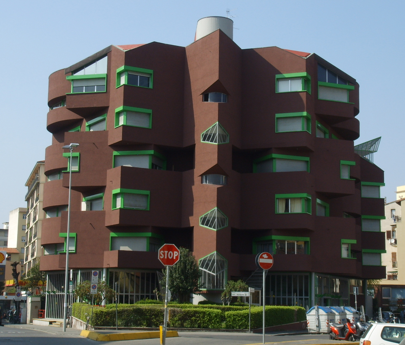 S.Jacopino square in Florence